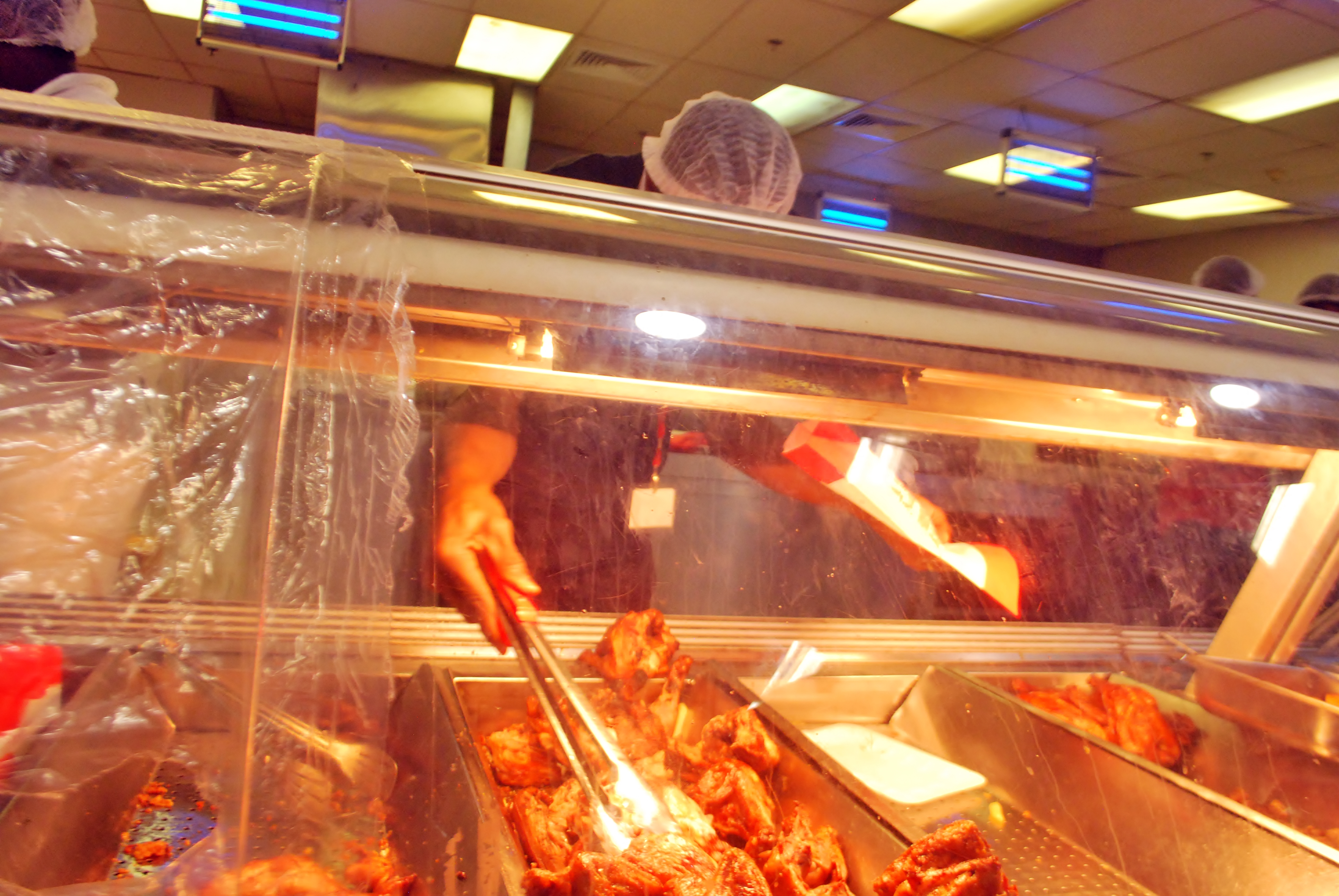 This is an image of "African people at work" from Nigeria